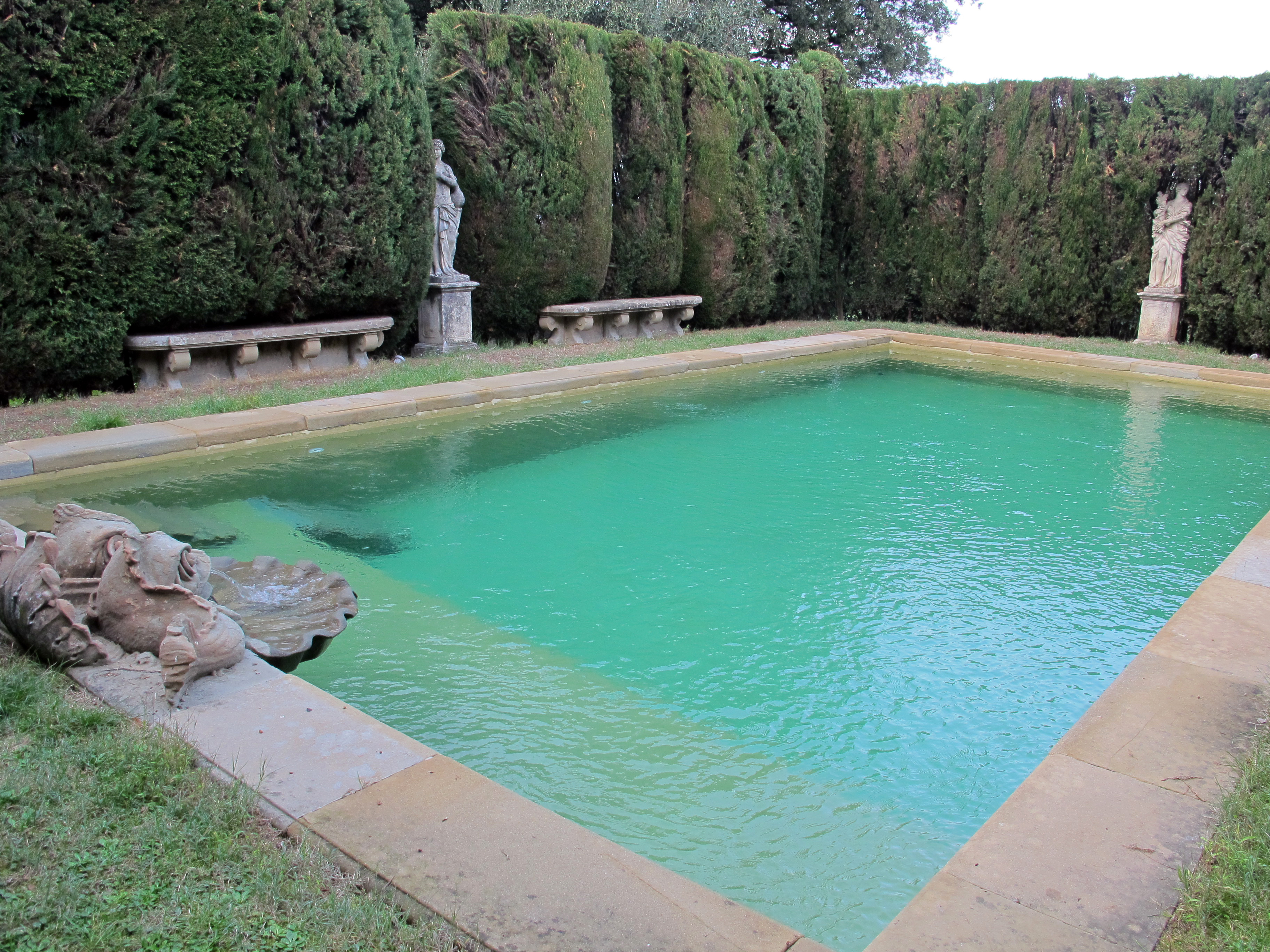 Villa Capponi (Florence) - Pool